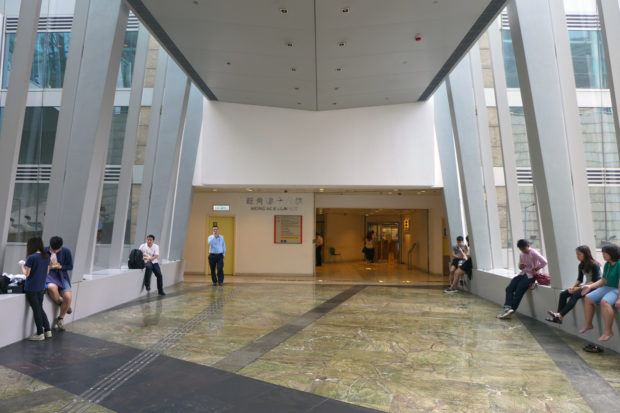 Langham Place Bridge to Mong Kok Complex